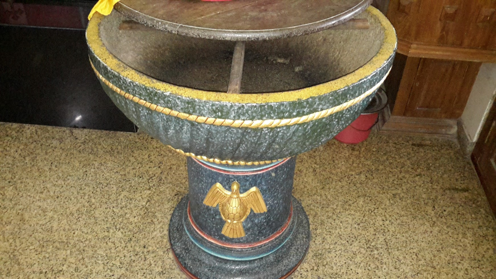 Mamodisa kalthotti used by Malankara Syrian Church for Baptism of new born children